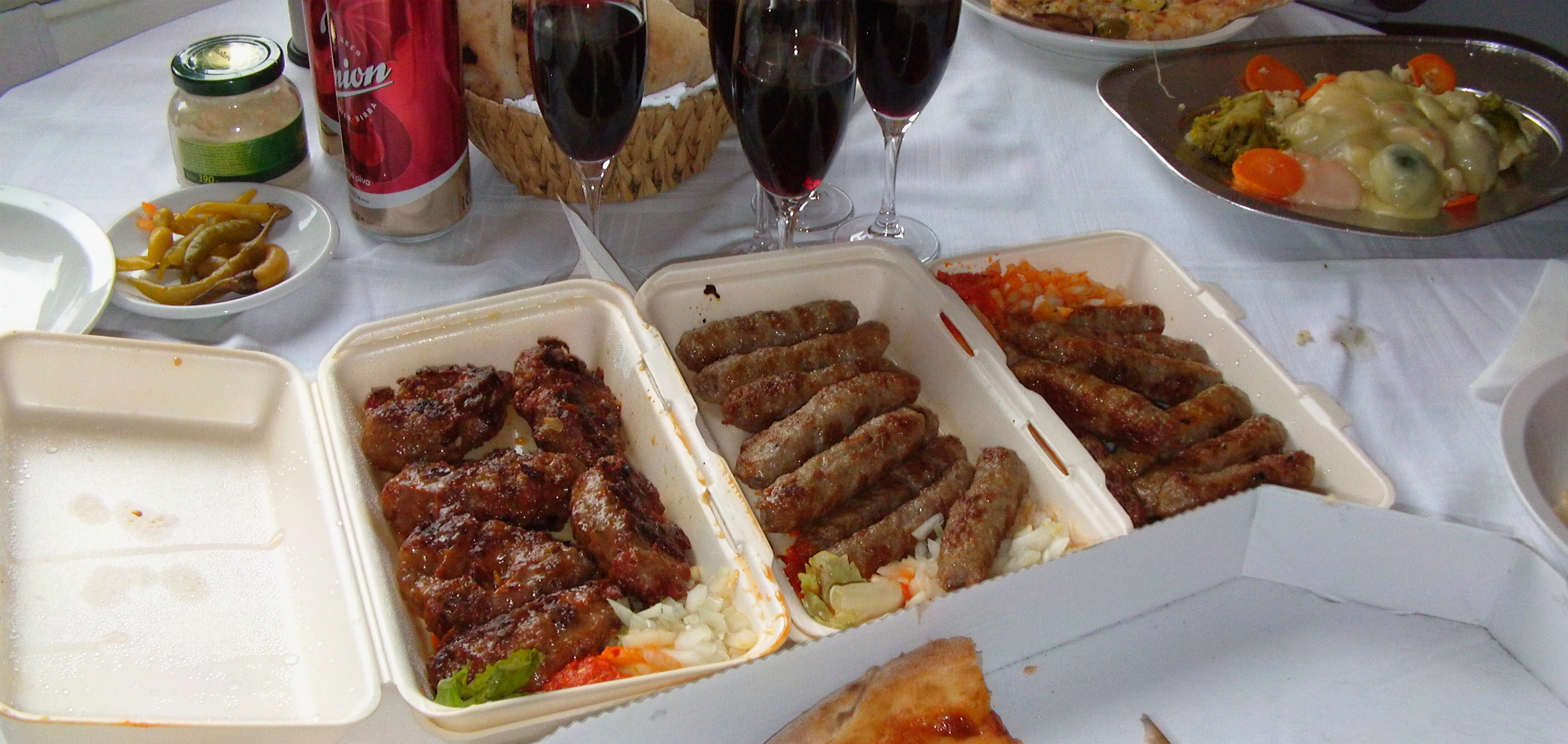 Serbian cuisine : uštipci & ćevapi